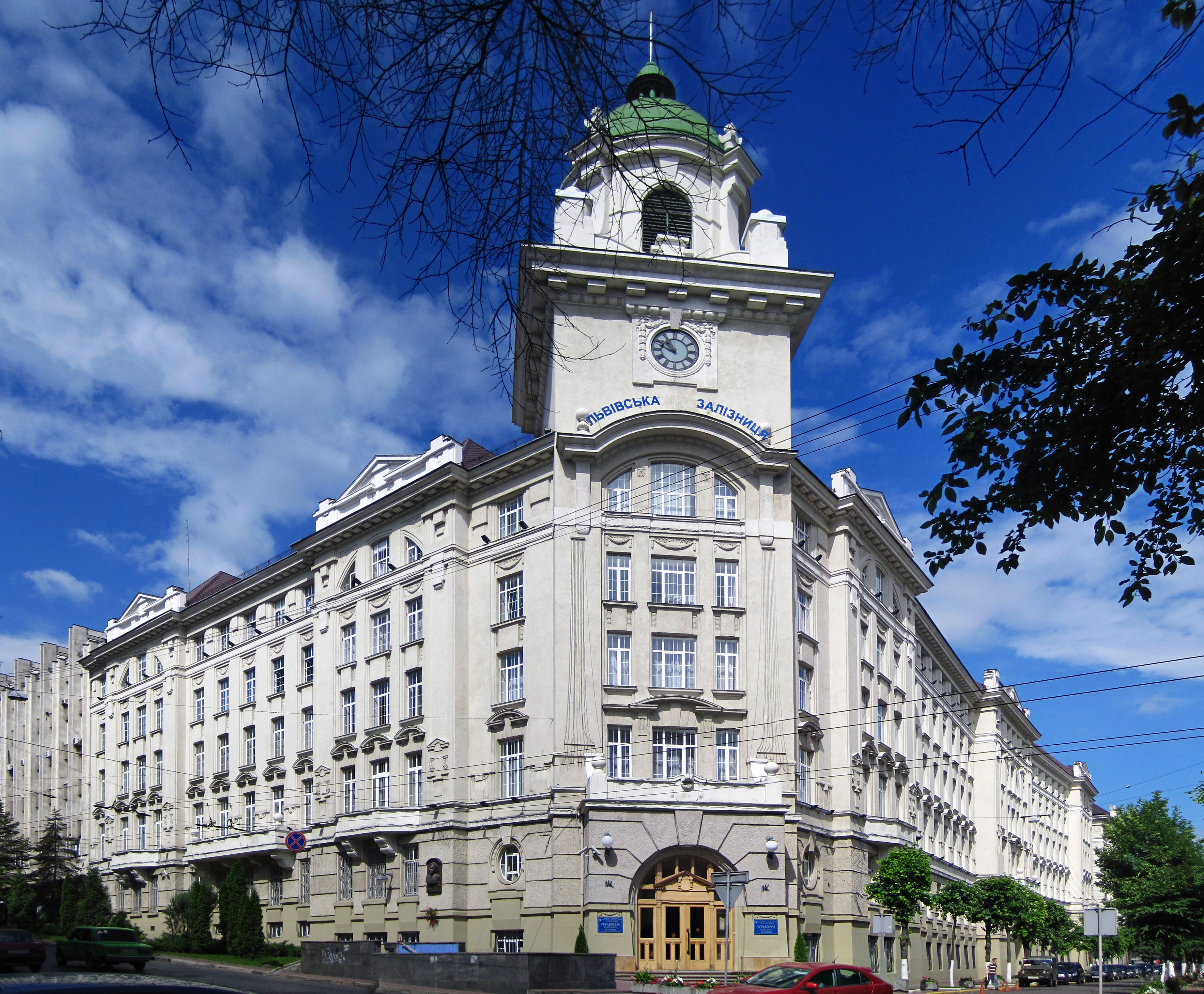 Lviv Railways main office in Lviv